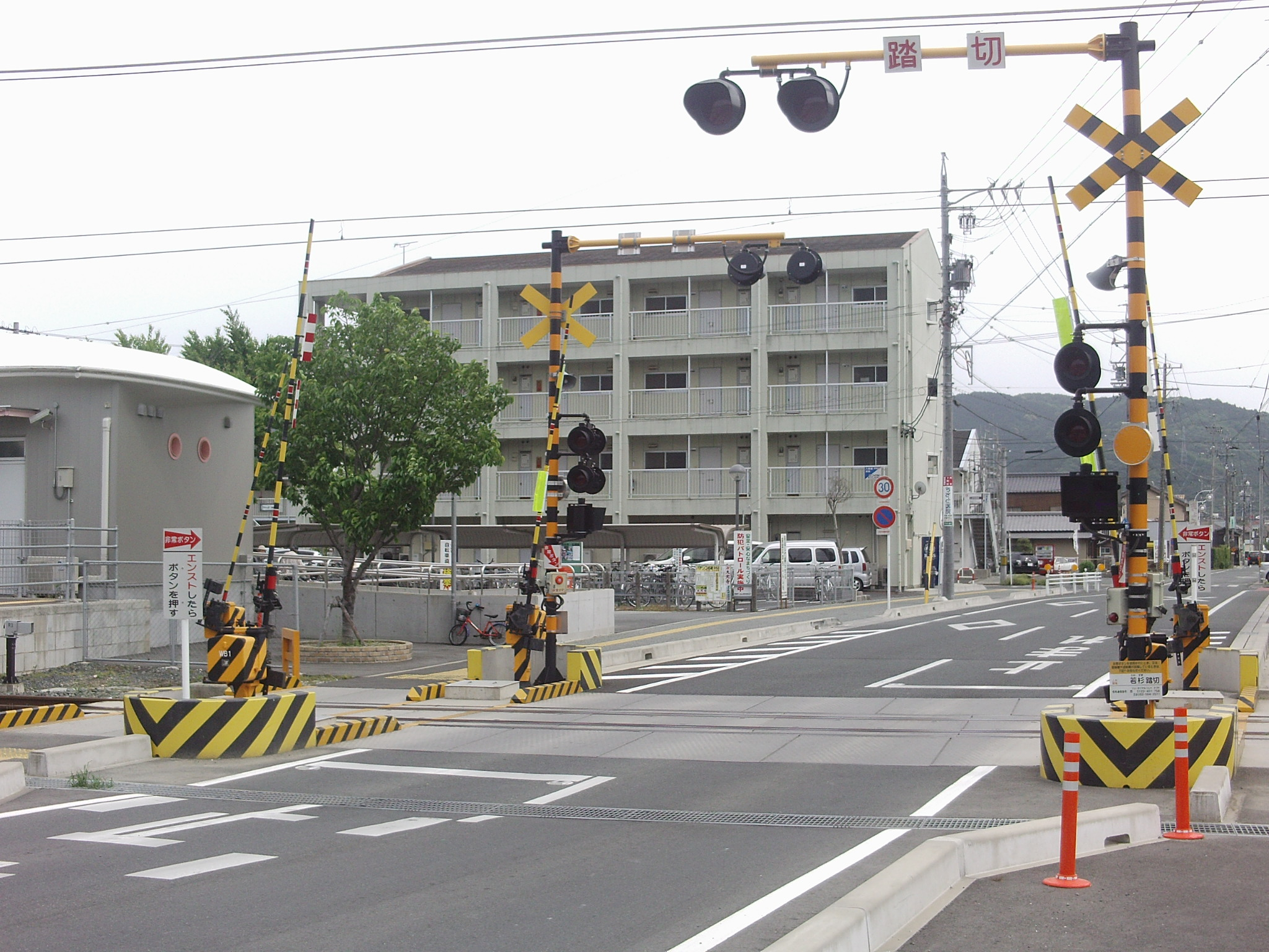 Aichi prefectural road No.444 in Hirai, Shinshiro, Aichi.